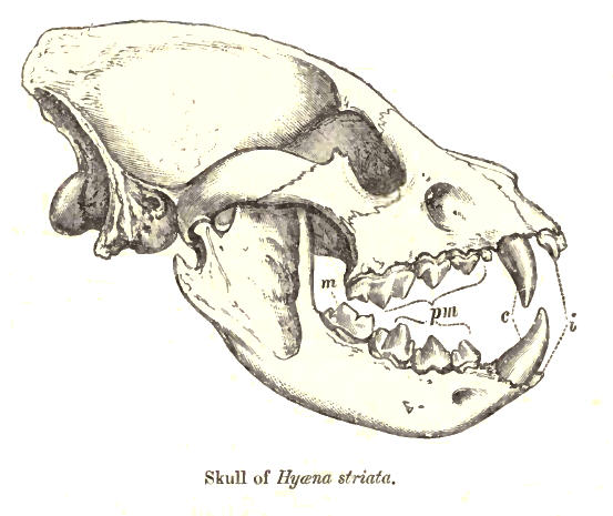 Skull of Hyaena striata